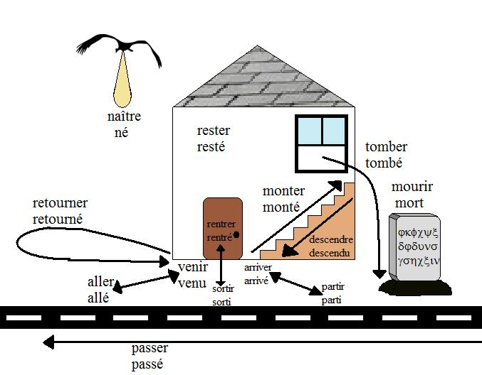 The house diagram employed by french language teachers in order for students to visualize which verbs go with être. Employs Image:Bird 1010720 drawing.svg and part of Image:Zwaluwen op dakgoot schaliedak.JPG, all which have been released under the GNU Free Documentation license.